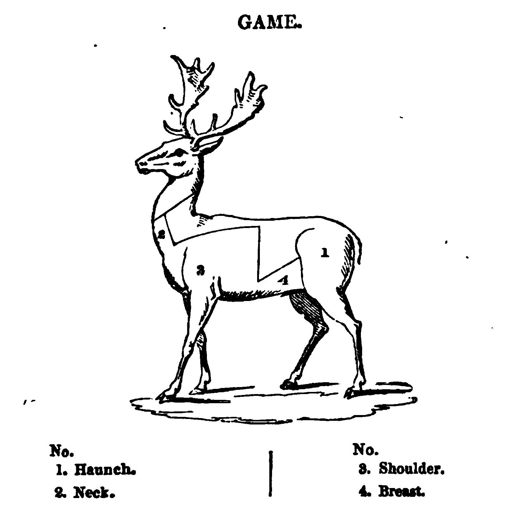 Illustration of Game cuts from Eliza Acton's 1845 work Modern Cookery for Private Families, page 271